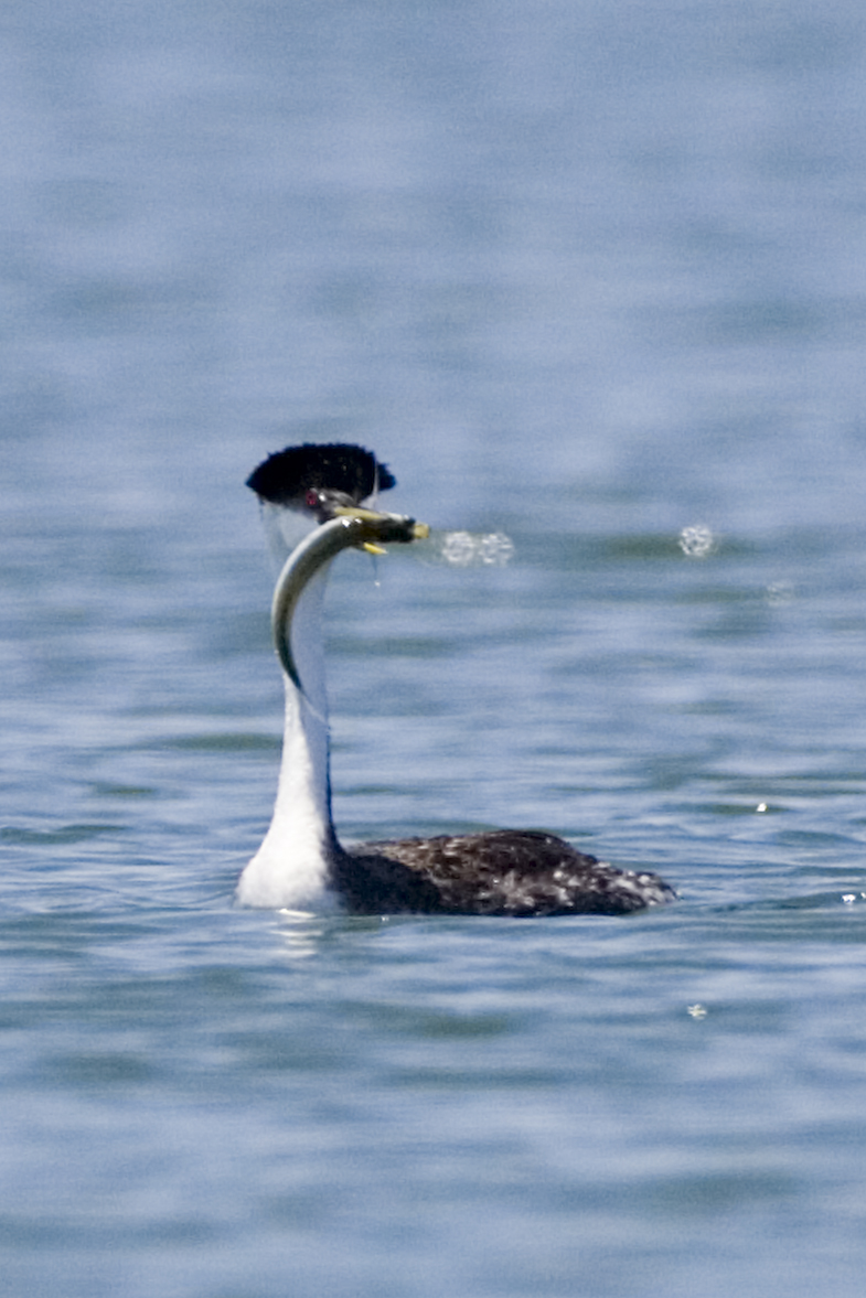 Clark's Grebe in Morro Bay, CA 08 May 2007, photographed at Coleman Beach at low tide. Photo by Mike Baird Canon 5D w/ 600mmIS on sturdy tripod